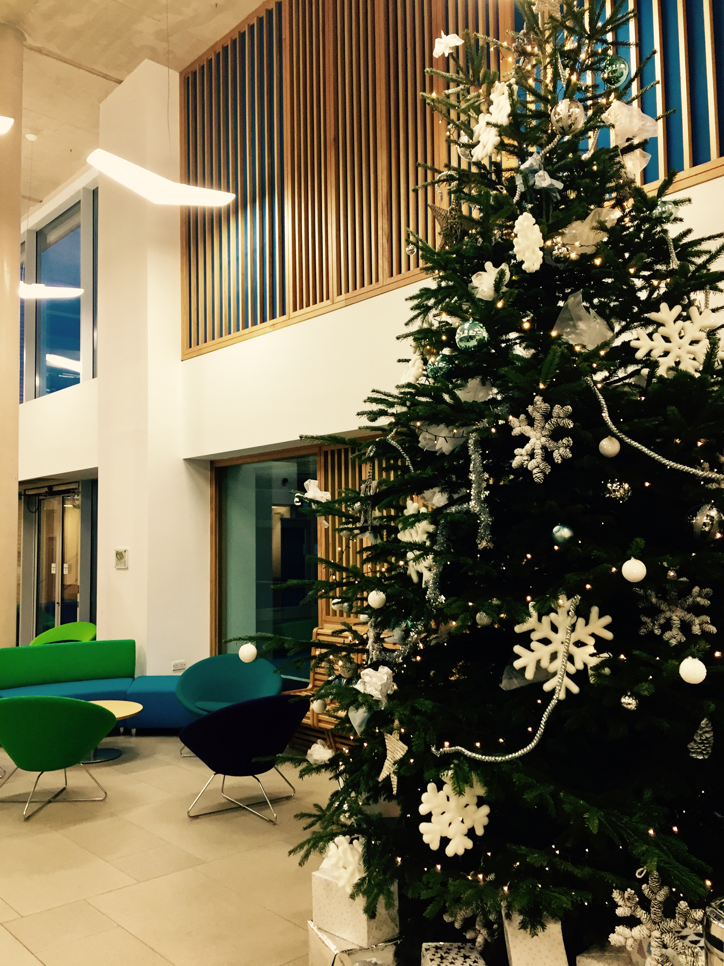 Christmas tree, Atrium Cafe, Birmingham